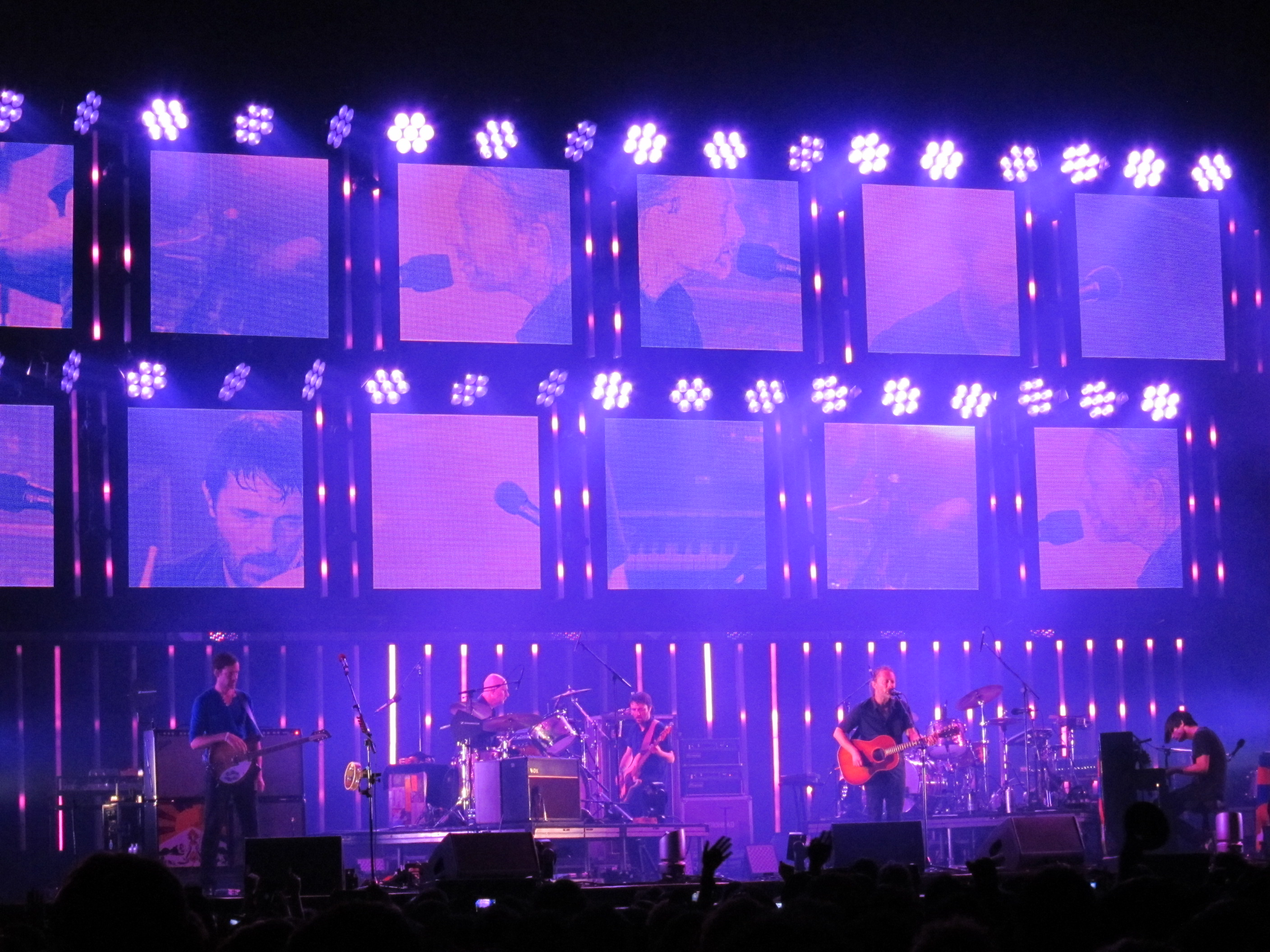 Radiohead live in Taipei, Taiwan.